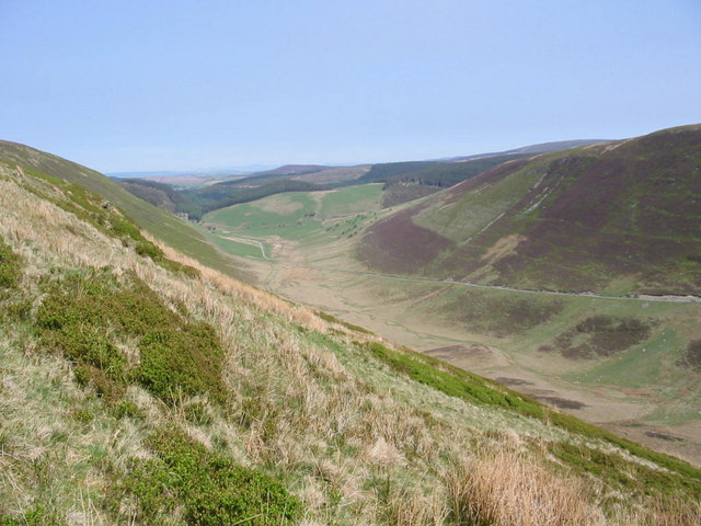 Hirnant The road to the Hirnant pass climbs out of the u-shaped valley.